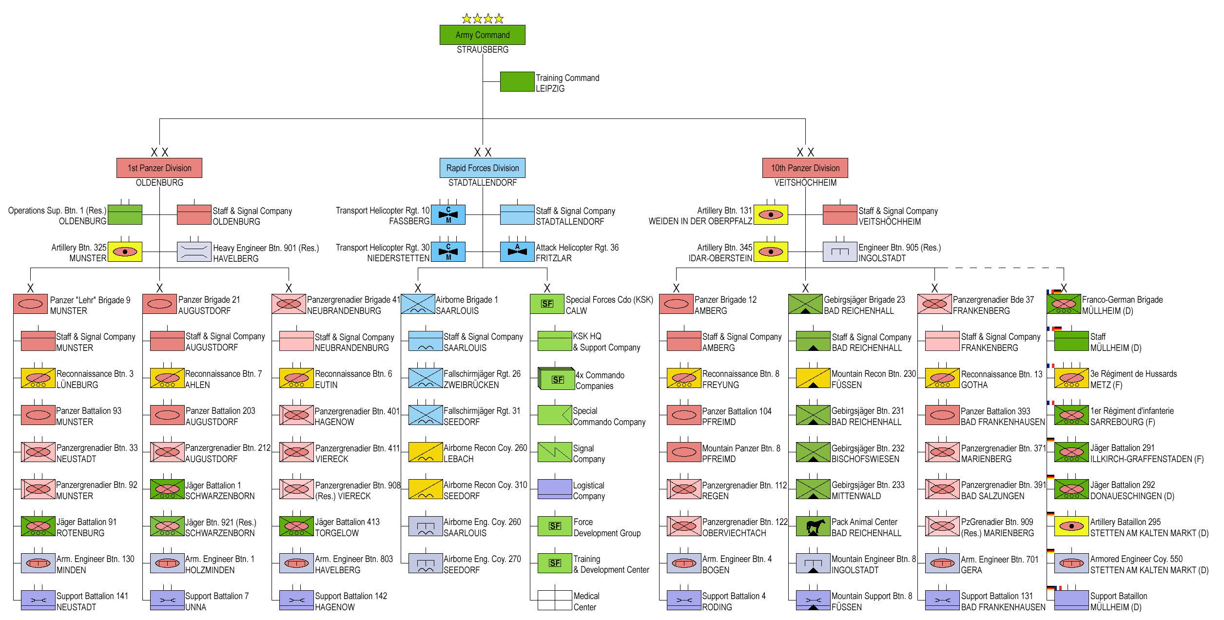 Structure of the German Army in 2017